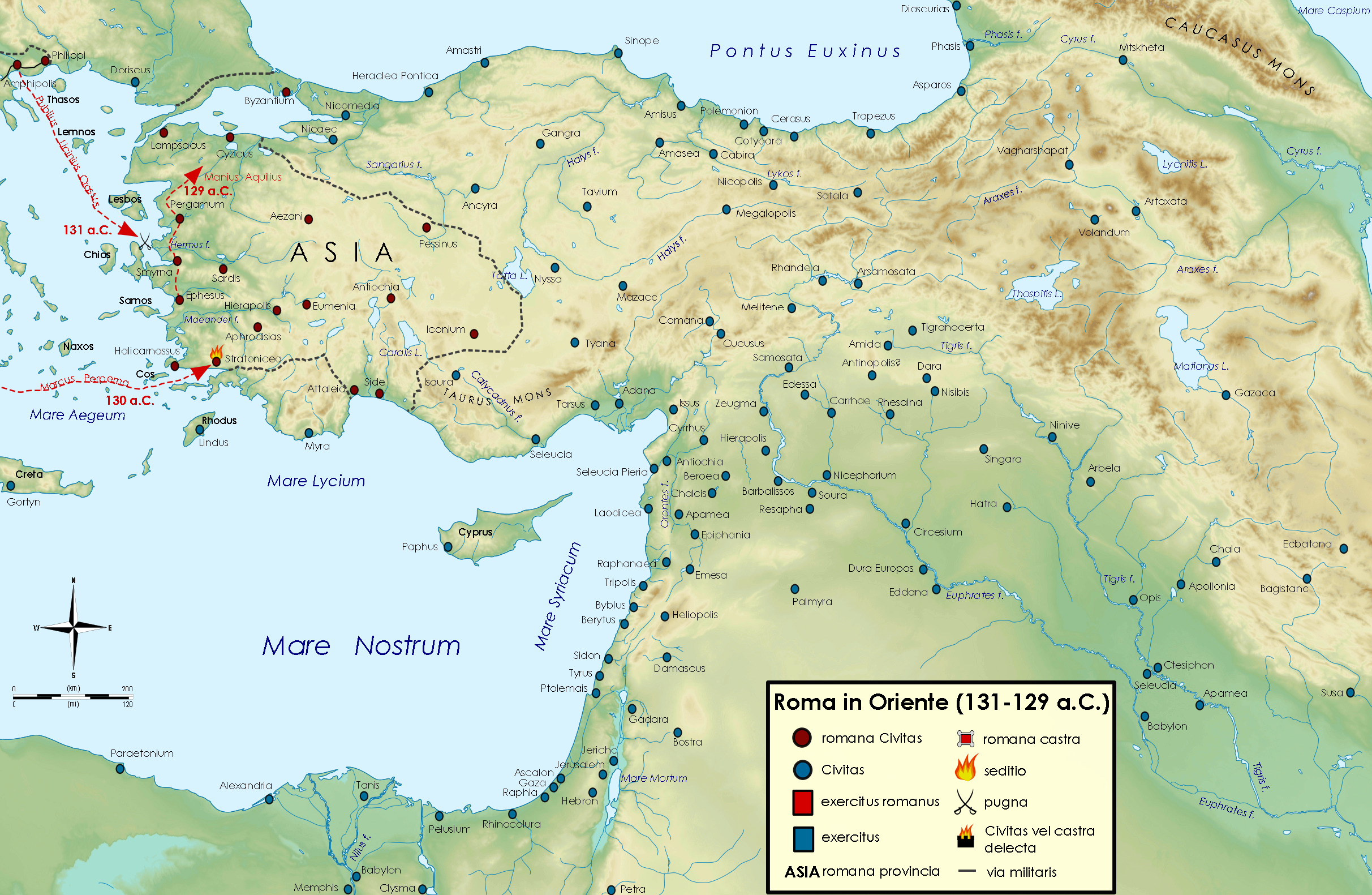 Roman republic in the Near East in 131-129 B.C., making the first asian province.